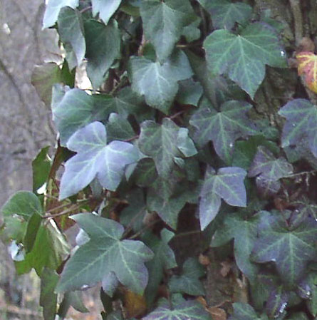 Ivy (Hedera helix), Wrocław, Poland.